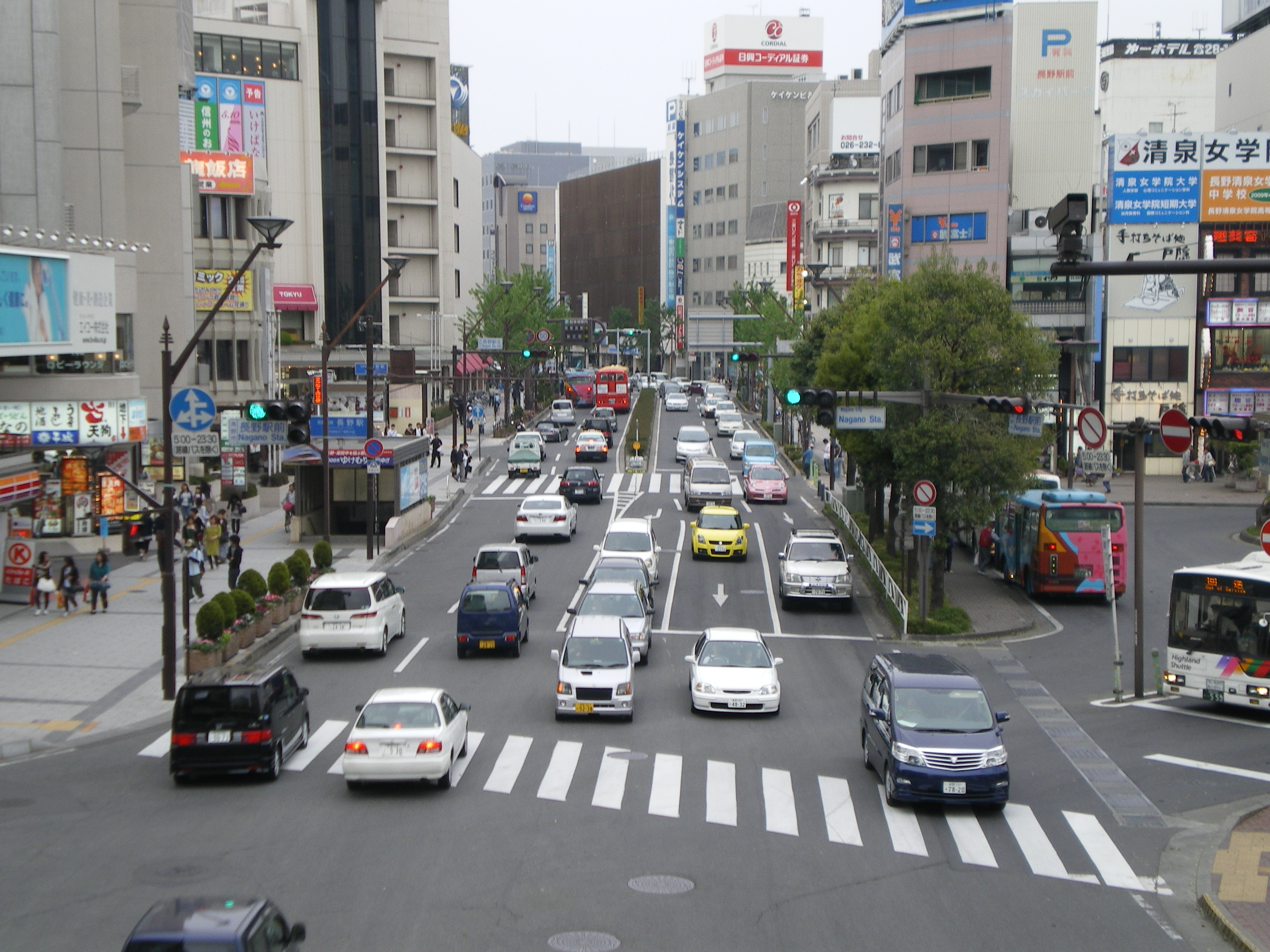 Nagano-odori Avenue, Nagano, Japan